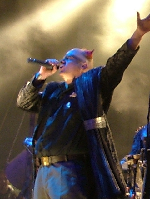 Teufel, singer of the german band Tanzwut